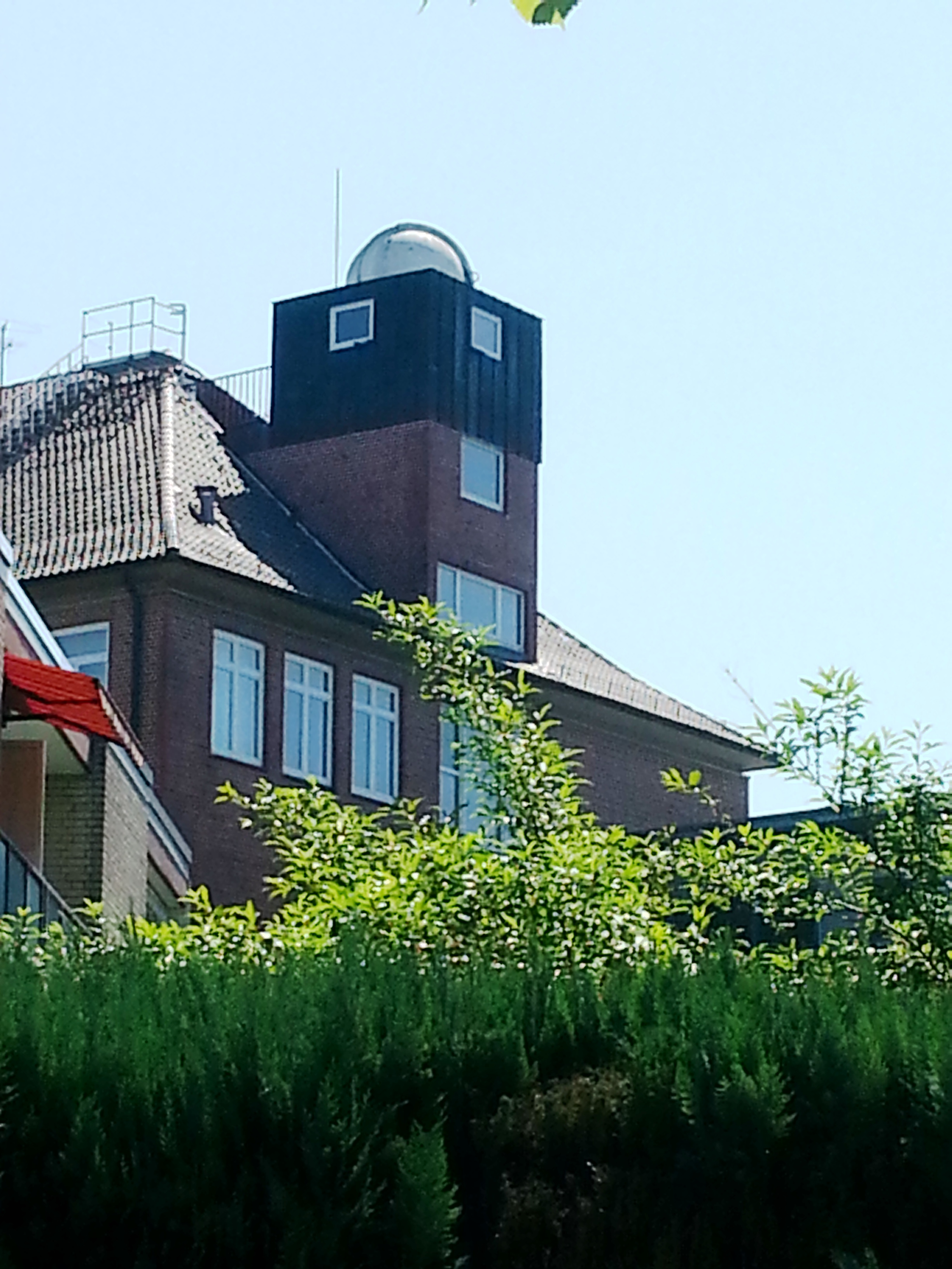 The Gymnasium Athenaeum (i.e. Athenaeum grammar school), established in 1588, in Stade, Lower Saxony, Germany. The observatory on the western end of the roof of the Mittelbau part (i.e. middle[-aged] building, erected in 1958).